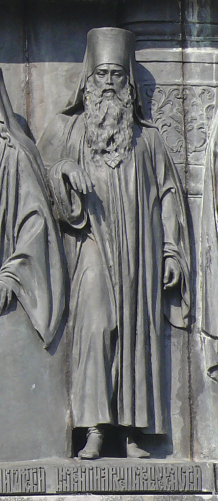 Archbishop Innokenty on the Monument "Millennuim of Russia" in Veliky Novgorod